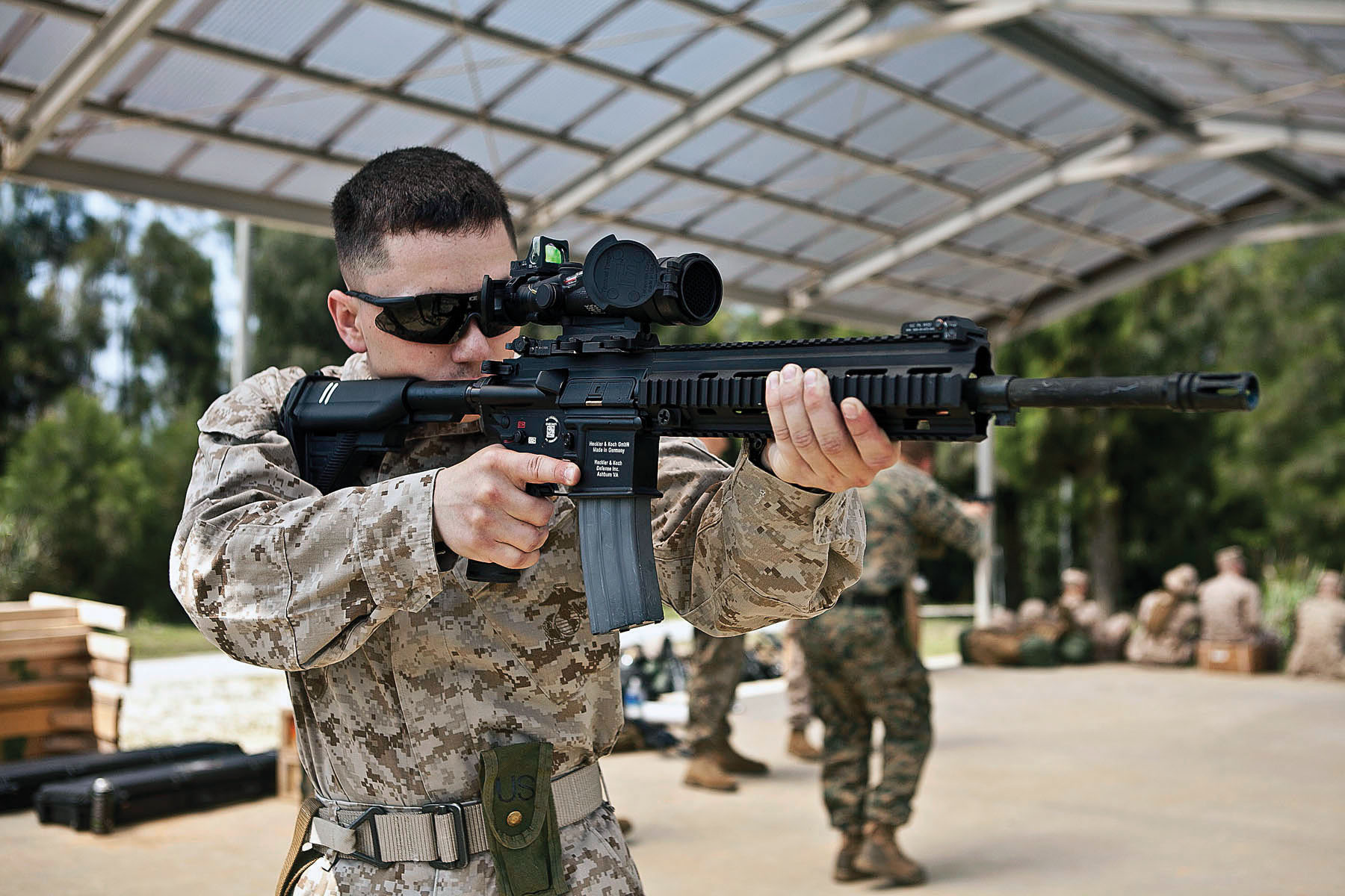 Lance Cpl. Zachary A. Whitman familiarizes himself with the M27 infantry automatic rifle in preparation for the Australian Army Skill at Arms Meeting 2012. AASAM is a multilateral, multinational event allowing Marines to exchange skills tactics, techniques and procedures with members of the Australian Army, as well as other international militaries in friendly competition. Whitman is a marksman with the III Marine Expeditionary Force detachment.